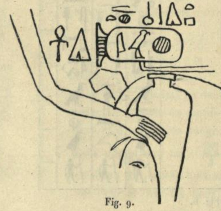 Cartouche of the Eighth Dynasty pharaoh Khui inscribed on a limestone fragment from an Upper Egyptian tomb.